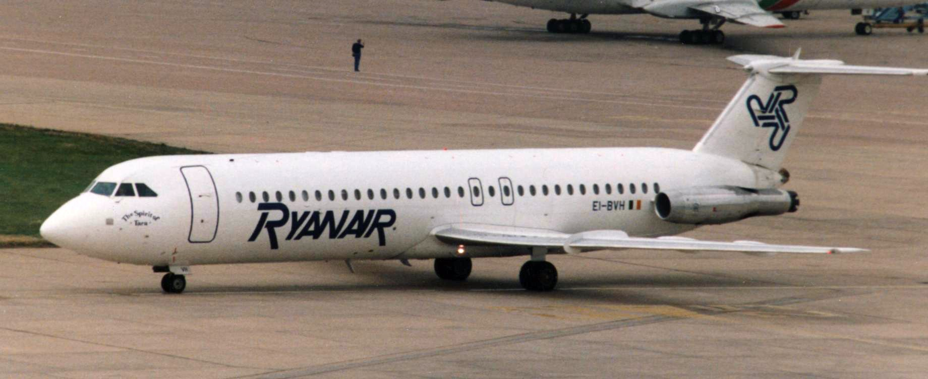 BAC (ROMBAC) 1-11 Series 561 of Ryanair at Manchester in June 1988